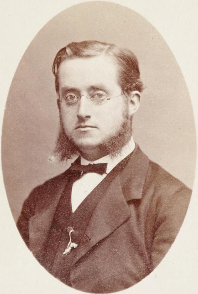 Portrait of Jérome Alexandre Sillem, around 1870